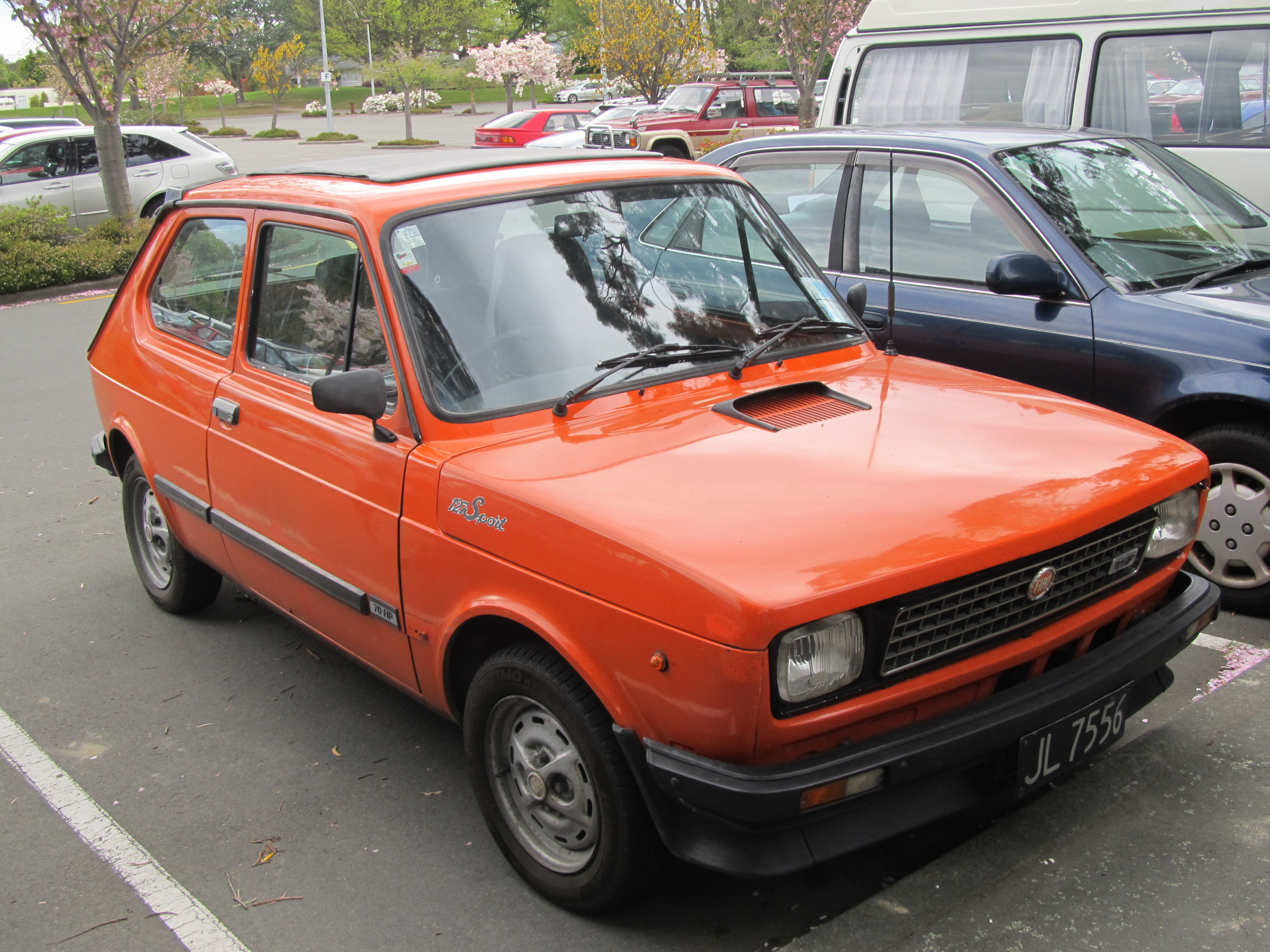 JL7556 Only 50 photos to go until my 1000th photo! I have something very special lined up for that milestone, so here is a 'halfway rarity'. I really wasn't expecting to find this in the Uni car park, and when I realised what it was I was quite shocked! A standard 127 is rare enough in NZ, but a Sport is even rarer...